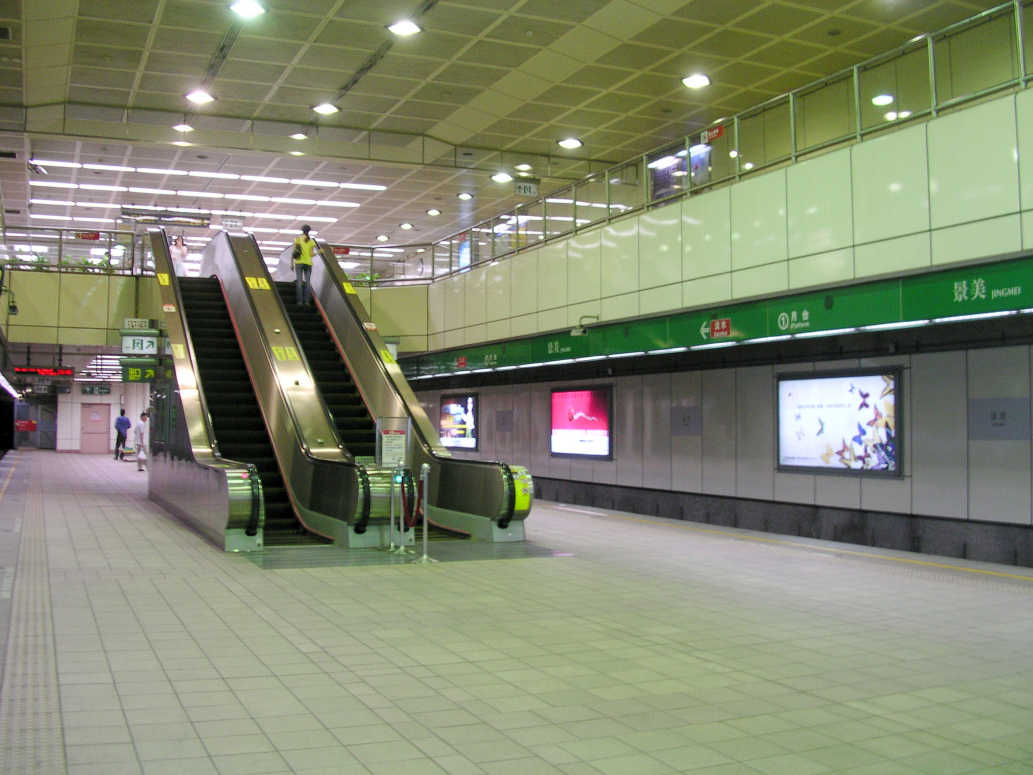 Platform 1, Taipei MRT Jingmei Station.中文（台灣）: 臺北捷運景美站第一月台。